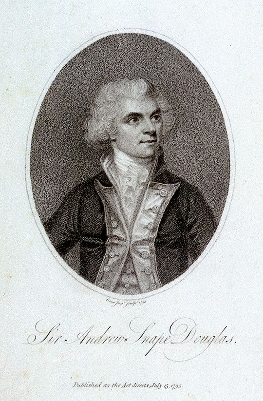 Stipple engraving of Captain Sir Andrew Snape Douglas RN (1761-1797)